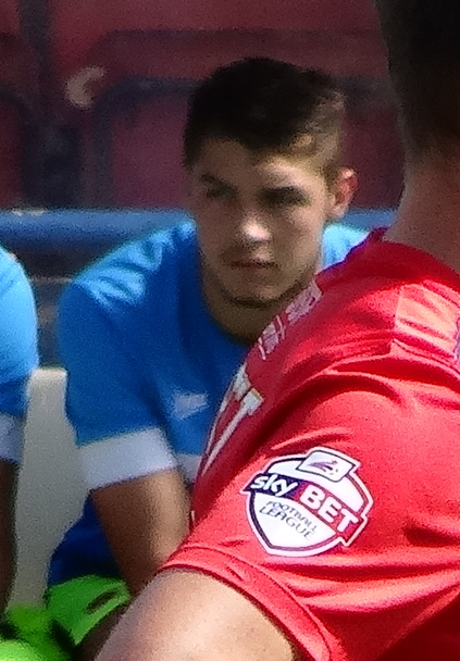 Brad Walker on the bench for Hartlepool United against York City at Bootham Crescent, York on 15 August 2015